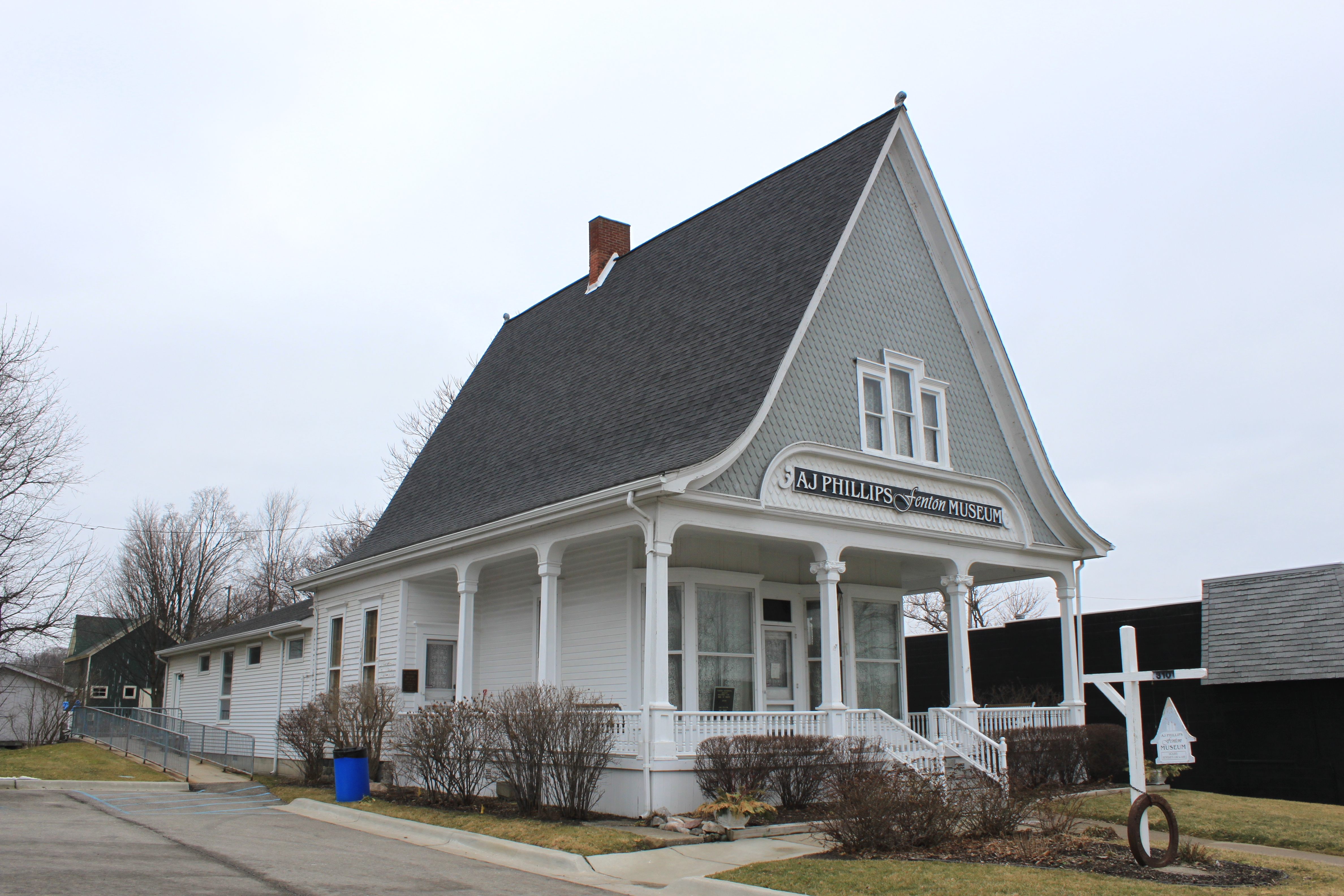 A.J. Phillips Building, 310 South Leroy Street, Fenton, Michigan. A plaque on the building says it was erected in 1900. It currently houses the A.J. Phillips Fenton Museum.